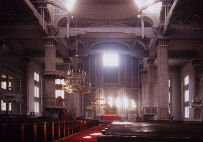 Interior of Kerimäki Church in Kerimäki, Finland